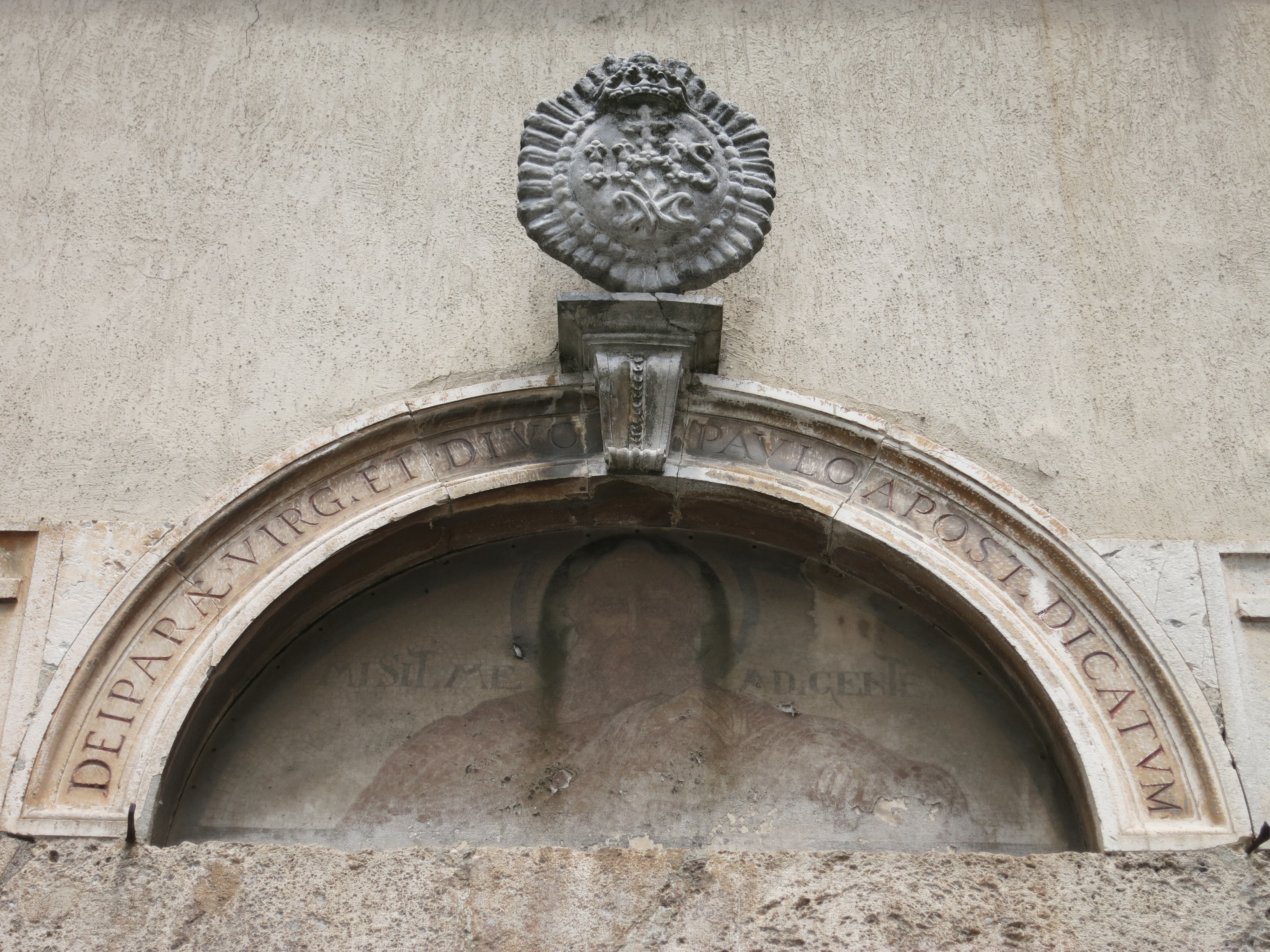 Saint Paul church and boarding school - Rieti, Lazio, Italy